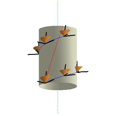 This figure illustrates the desychronization of a clock transported around a rotating ring. The gold light cones are the light cones of various Langevin observers in Minkowski spacetime. These observers rotate rigidly with angular velocity ω; in the figure, ω = 1/2. The frame vectors are shown as black rods. The axis of cylindrical symmetry, r = 0, is shows as a dashed green line. The z coordinate is inessential has been suppressed. The red curve is the world line (a timelike nongeodesic curve) of a particular Langevin observer. The blue curve (a spacelike curve) and shows why the clocks of Langevin observers riding on a rotating ring cannot be globally synchronized. This figure was created by User:Hillman using Maple to export a jpg image, then using eog to convert to png format.